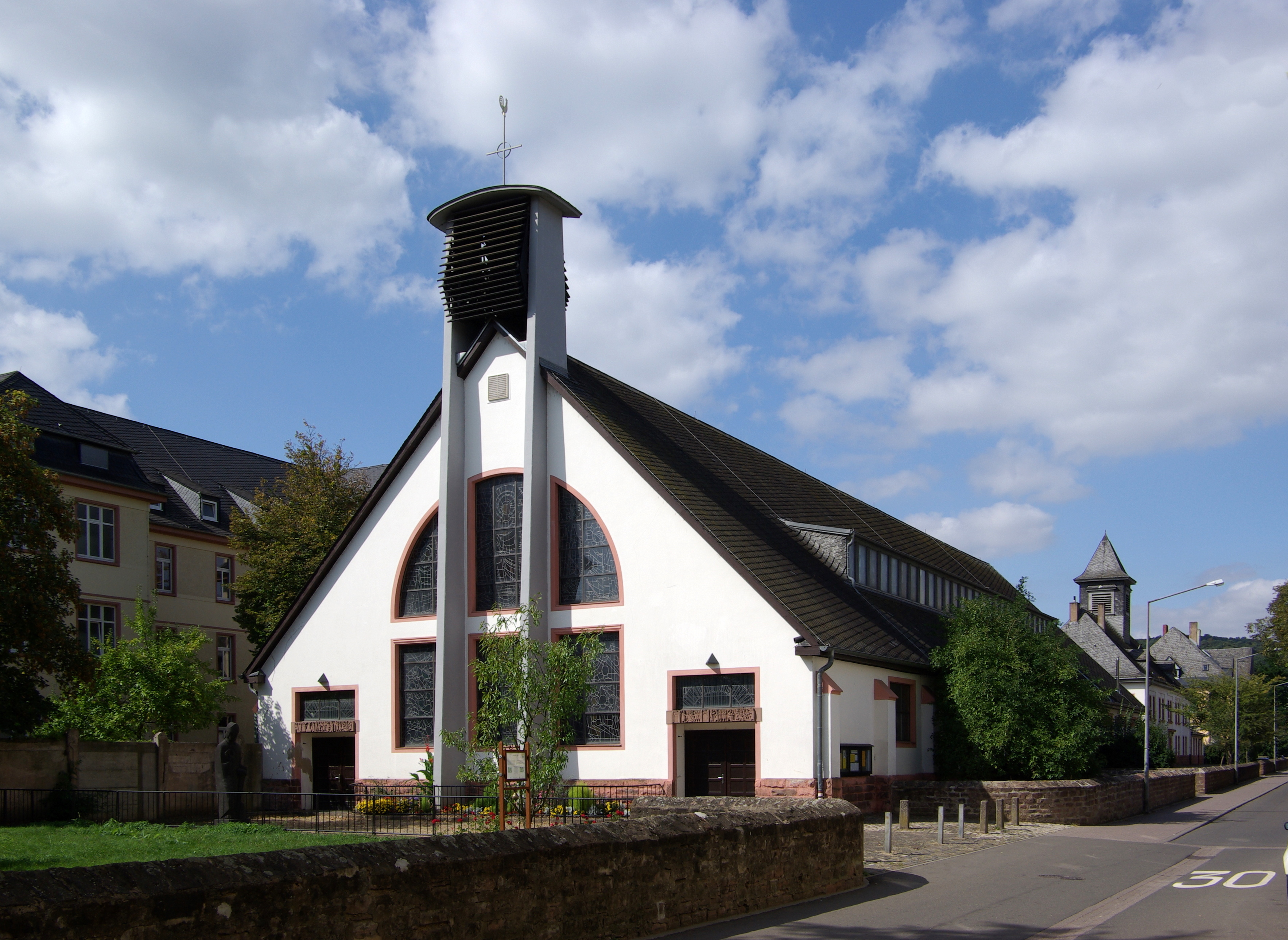 Germany, Trier, St. Ambrosius church, the church is a reconstruction of a riding arena, the year of the reconstruction is 1954 by architect F.Thoma, the riding arena was build in early 20th century, the windows are from 1954 by Reinhard Hess, sculptures from 1962/63 by Heinrich Diekmann, heritage monument of Rhineland-Palatinate